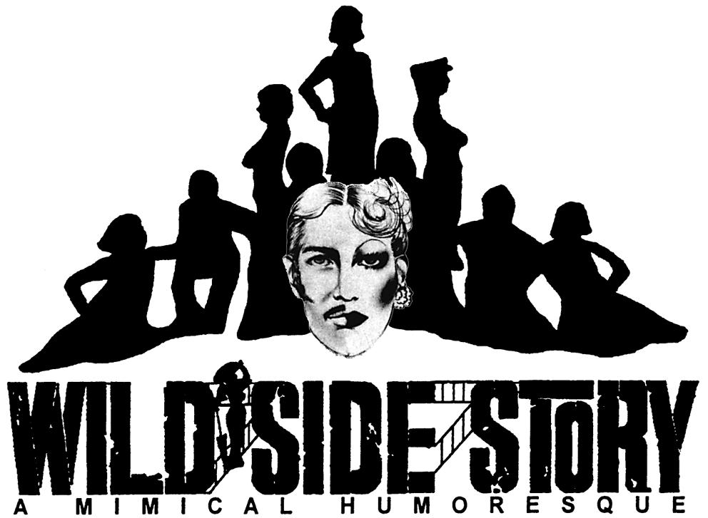 Wild Side Story logotype of 2001, as released by image creator Lars Jacob Prod and F.U.S.I.A.Place: Stockholm, Sweden (silhouette of 1973 Miami Beach Cast)